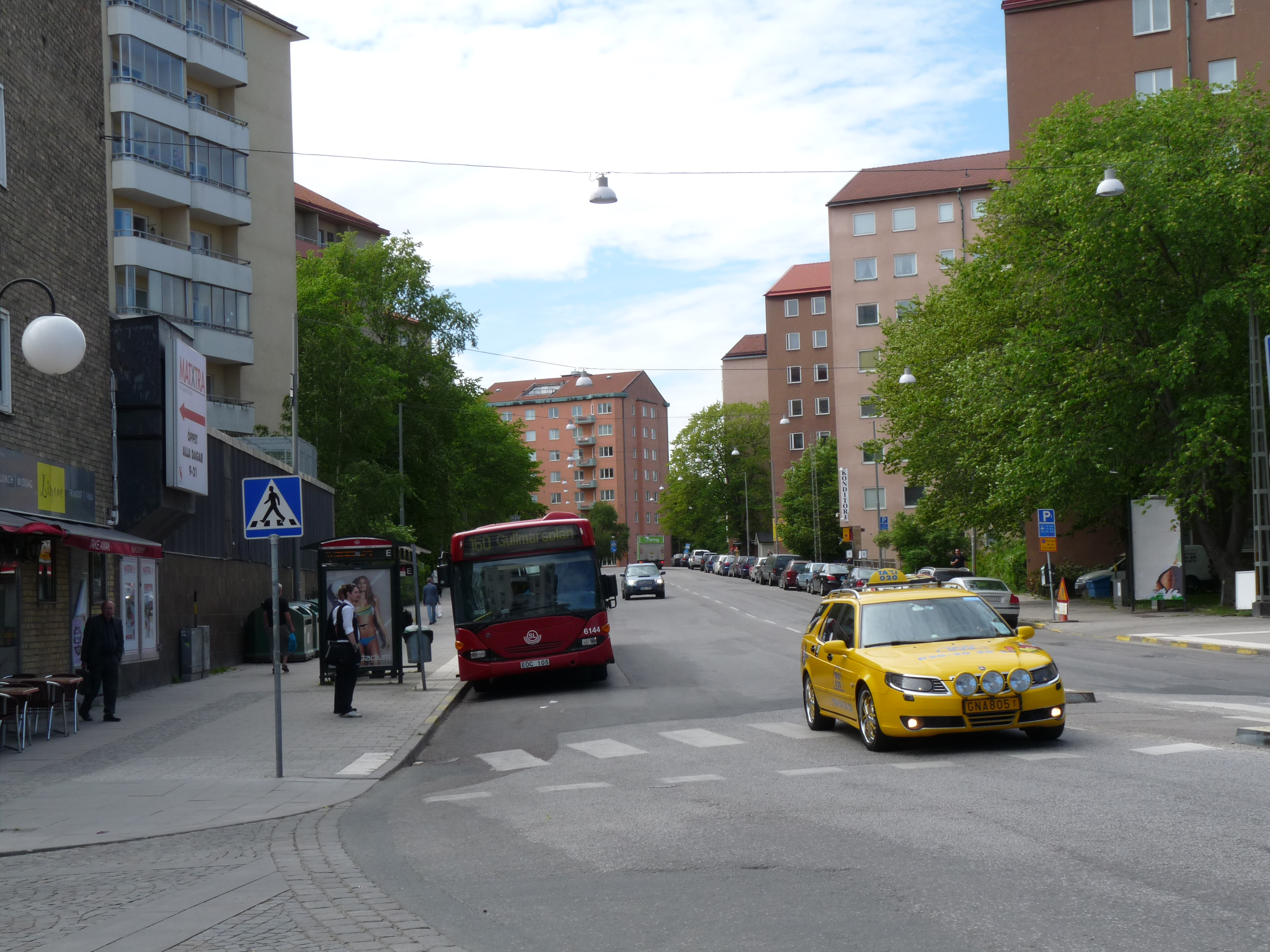 Gullmarsvägen